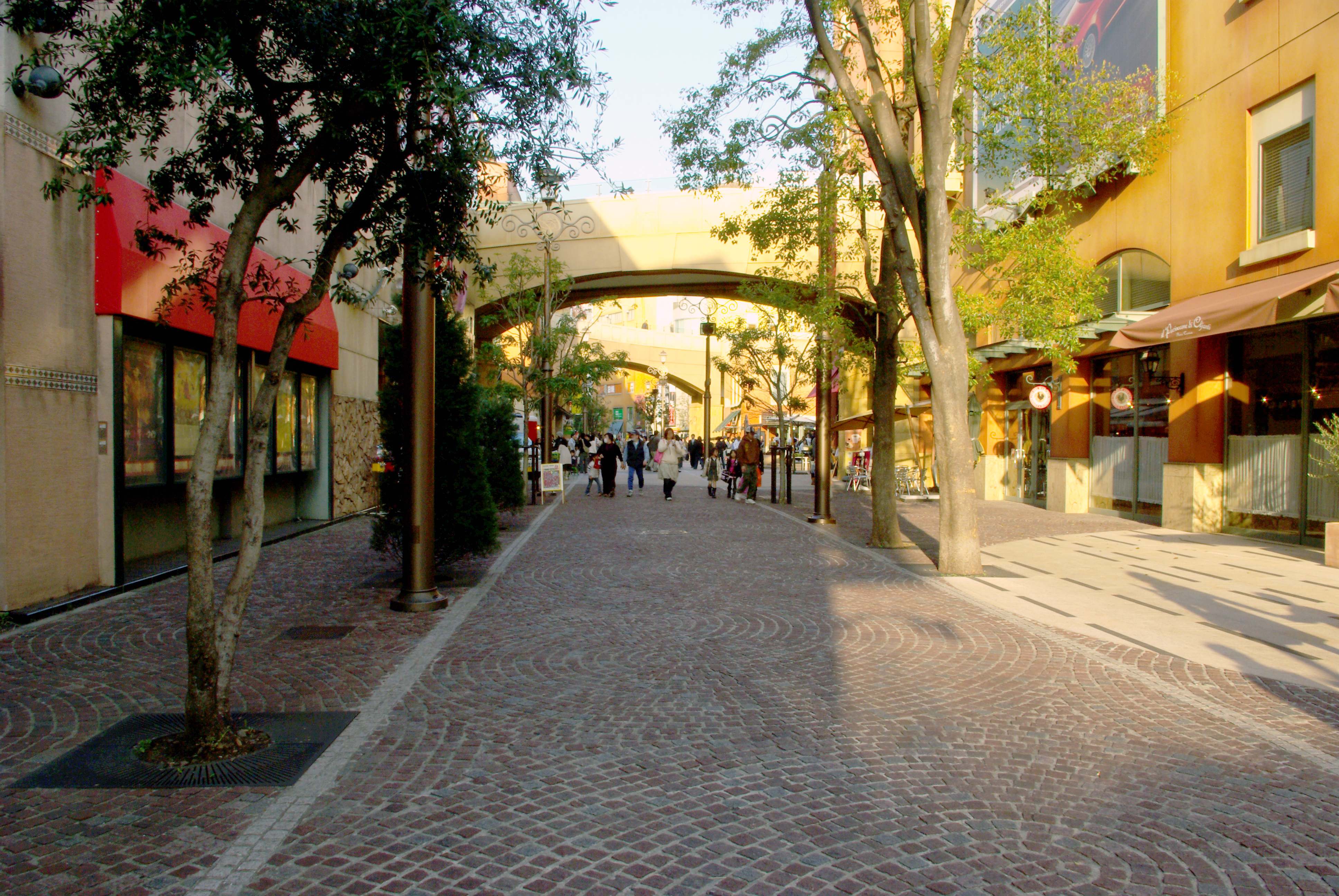 LA CITTADELLA' Main Street